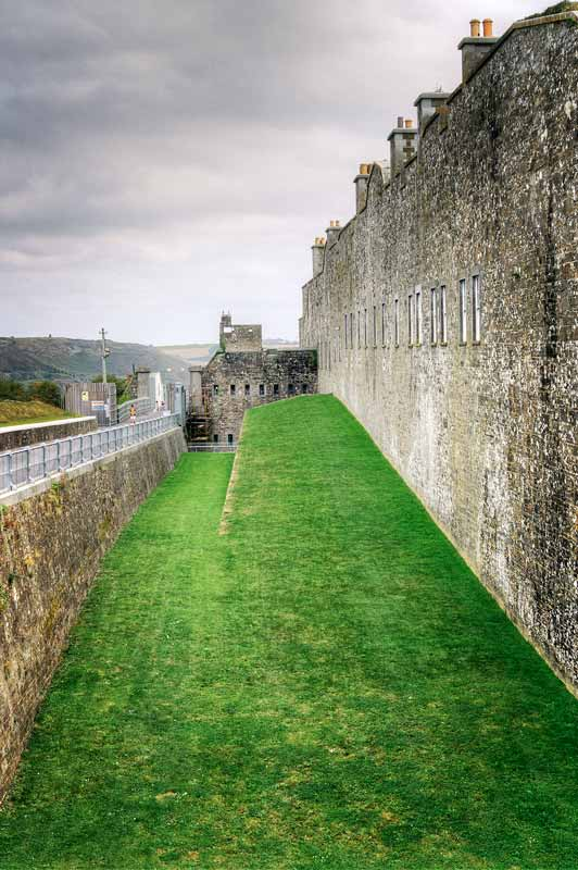 External view of Camden Fort Meagher